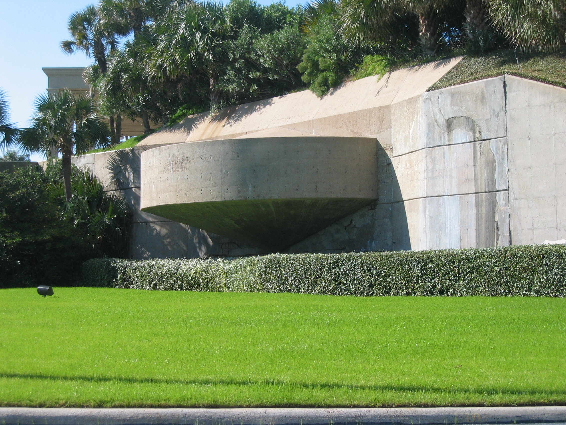 East casemate (gun emplacement) of Battery Hoskins for US Army Coastal Artillery at Fort Crockett on Galveston Island, Texas. Built in the 1940s, this casemate protected a piece of long-range artillery placed to defend Galveston Island and the entrance to Galveston Bay (and the Bay's various cities and ports.) Too massive to be removed, it was abandoned and served as an unofficial tourist attraction for the second half of the 20th Century. A hotel and resort has now been built around it, with an effort to screen the casemates behind greenery.